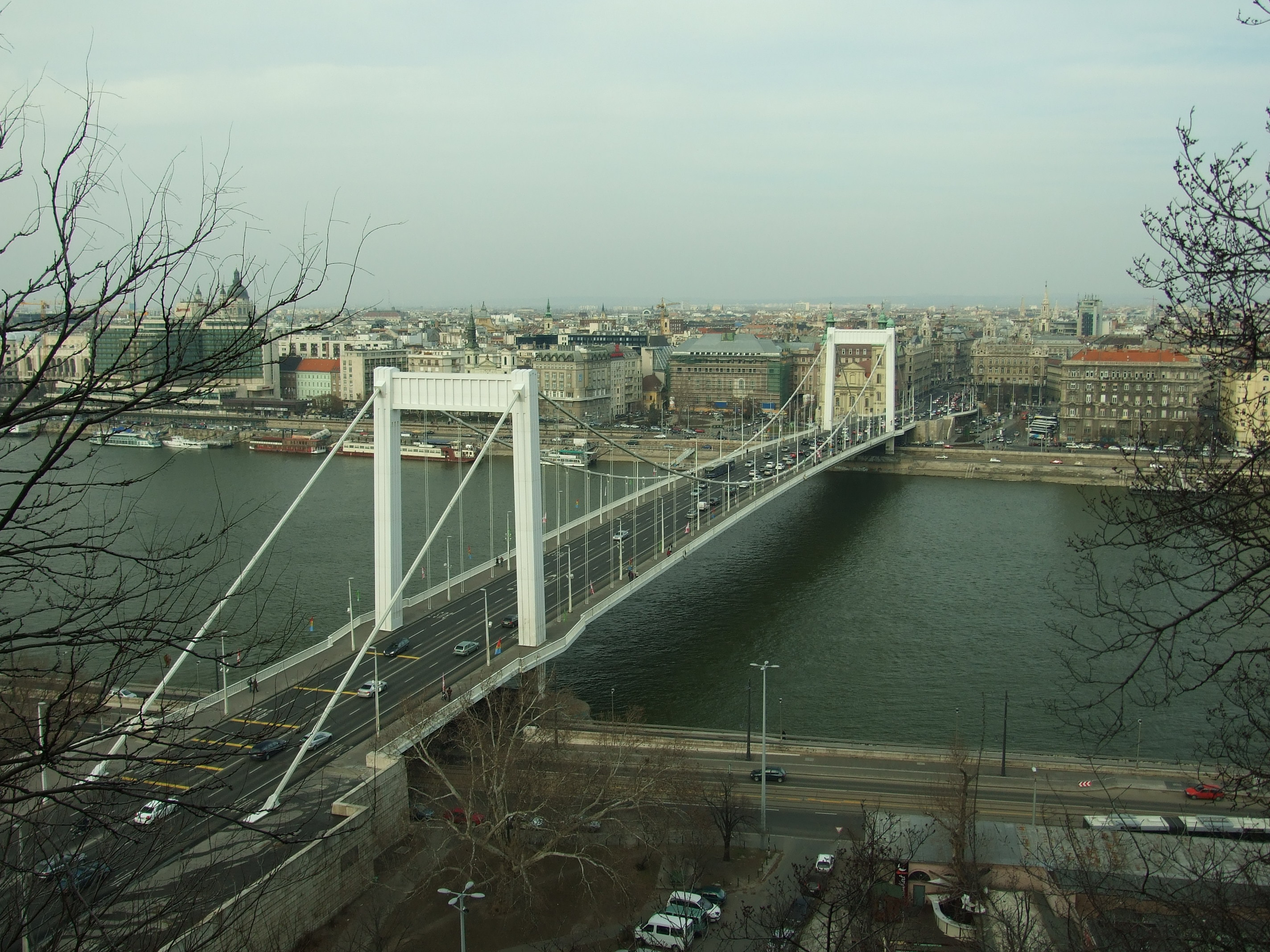 Erzsébet híd bridge seen from Gellért hegy, Budapest, HU